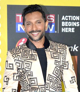 Lewis at the ‘NRI Of The Year’ awards in Mumbai